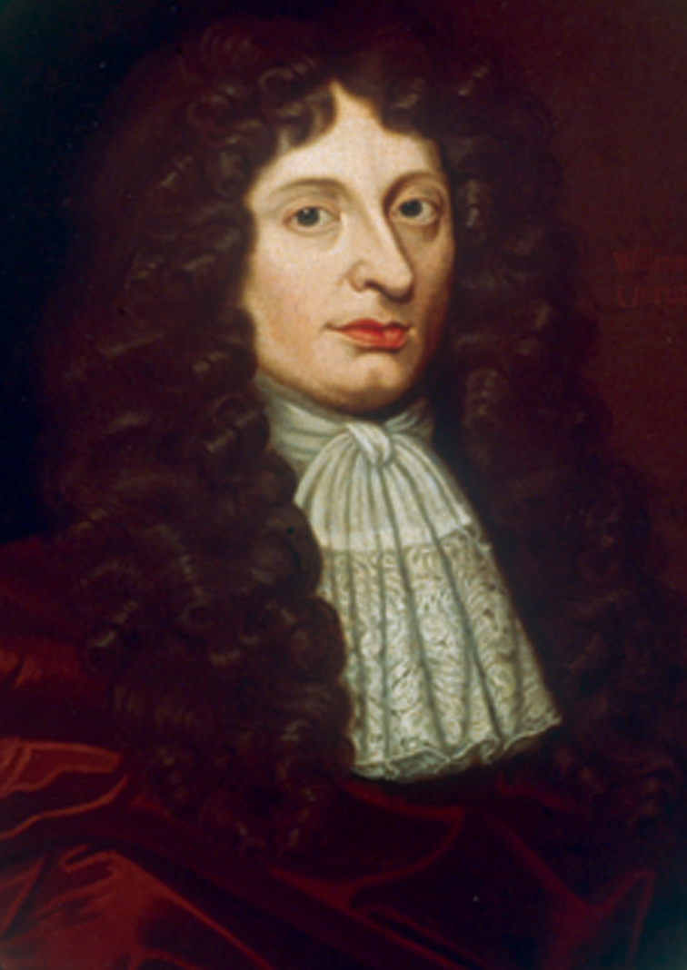 Portrait of William Borthwick held in the collection of The Royal College of Surgeons of Edinburgh